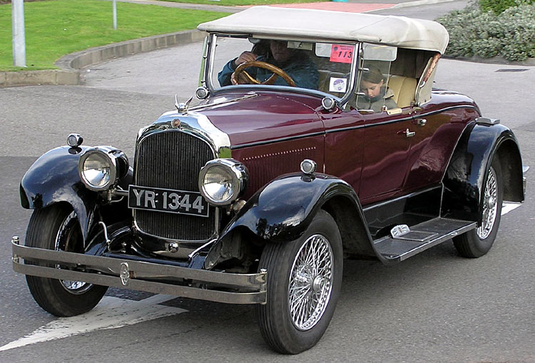 1926 Chrysler Imperial Roadster at the Great West Road Run rally at Aust Services, Aust, Bristol, England.